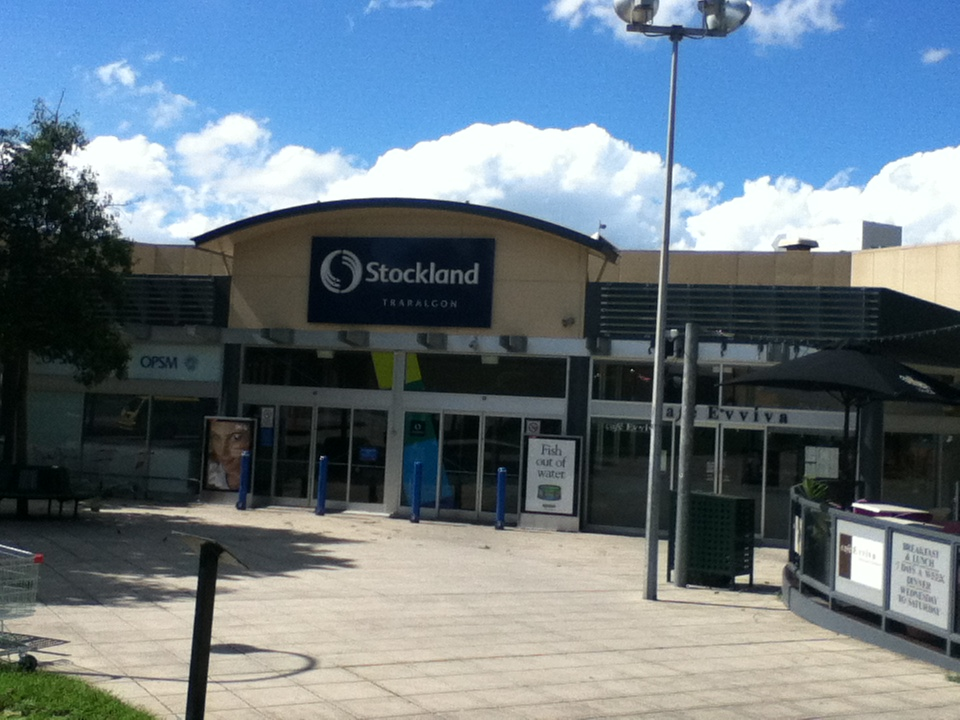 The Franklin Street entrance of Stockland Traralgon Shopping Center, in Traralgon, Victoria.